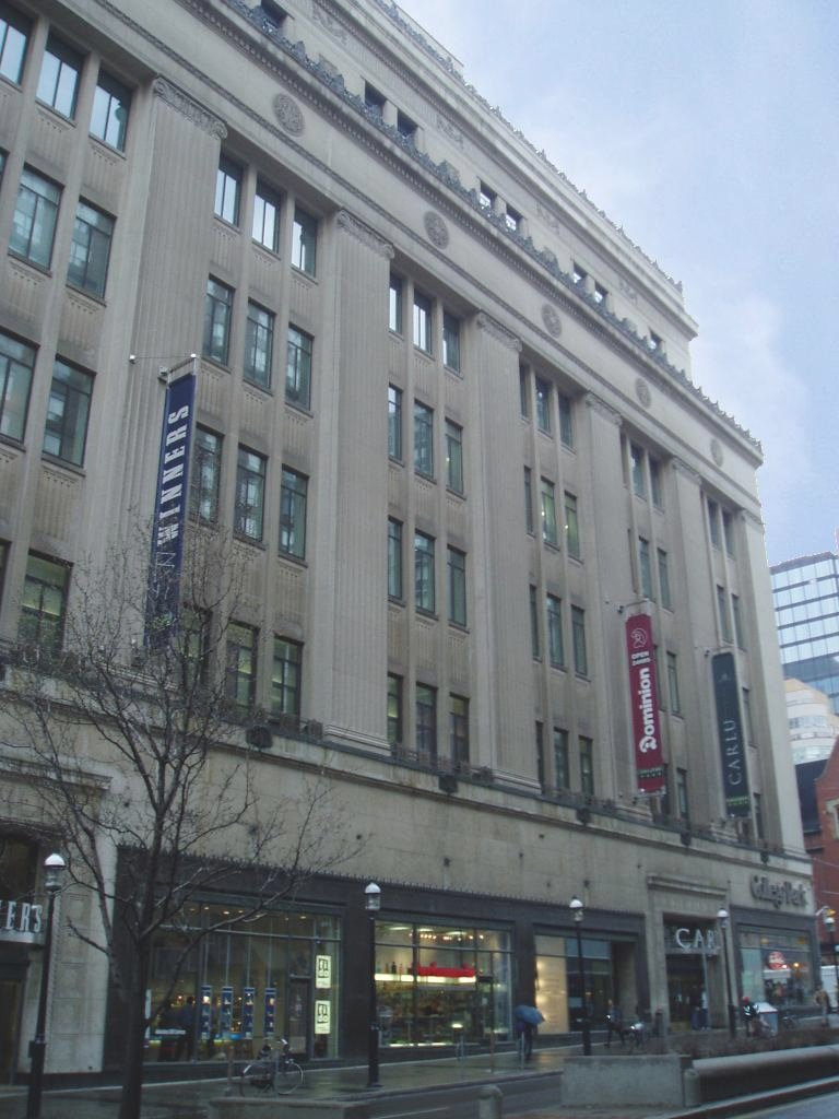 College Park (Toronto), taken by SimonP